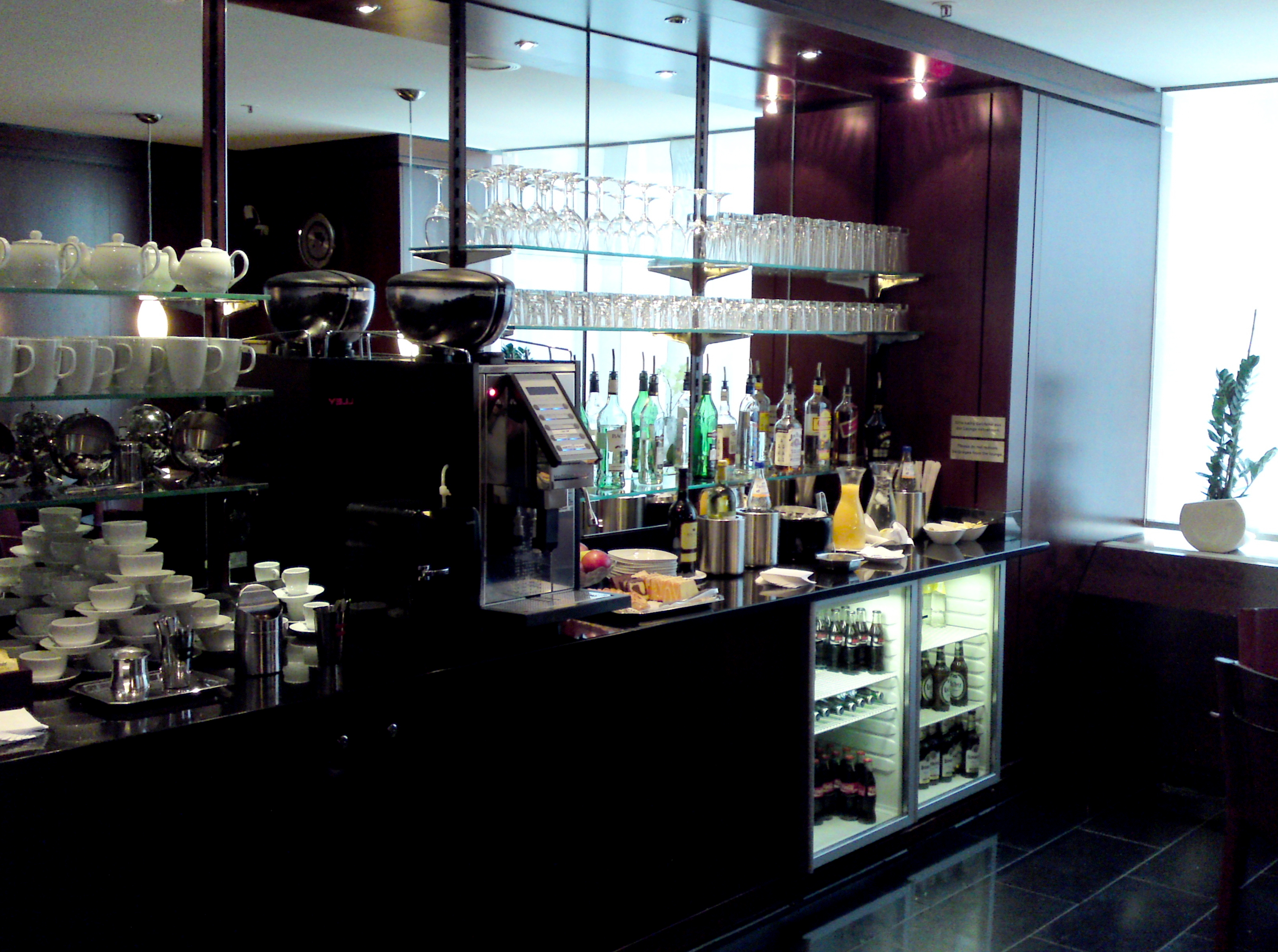 American Airlines Admirals Club at Frankfurt Airport (FRA) in July 2009.